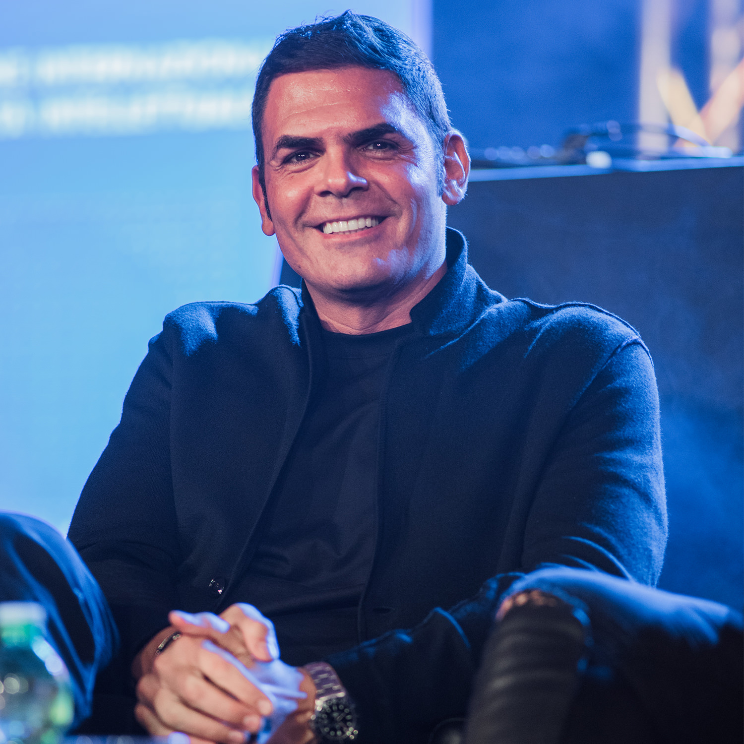 Sergio Cerruti, President of AFI: Italian Independent Music Producers Association